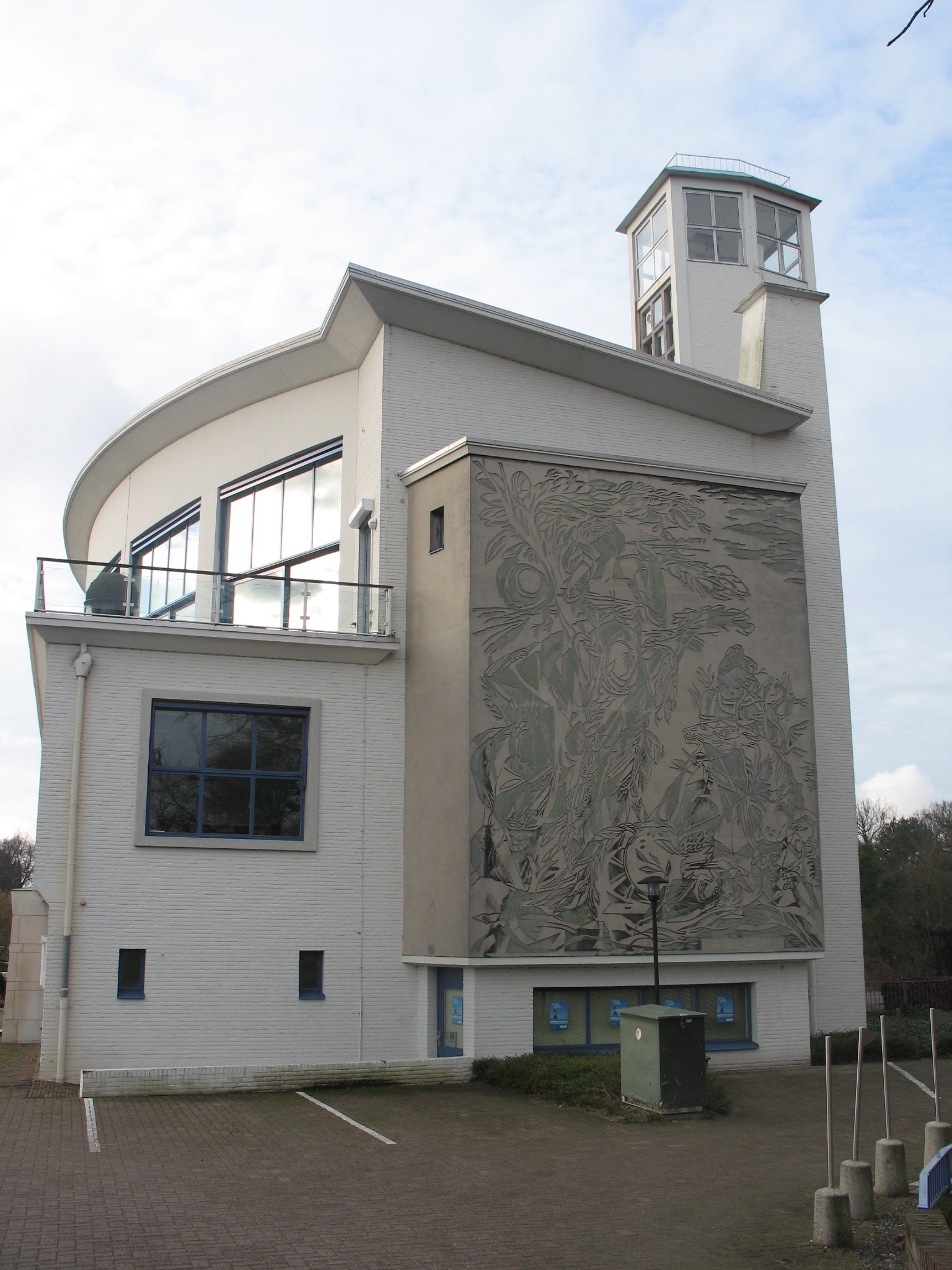 Laboratorium Landmeetkunde, Wageningen, the Netherlands